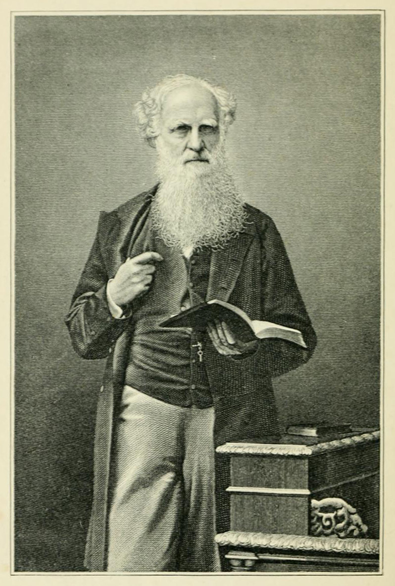 Henry Reed of Tasmania - English landowner, shipowner, merchant, philanthropist and evangelist.